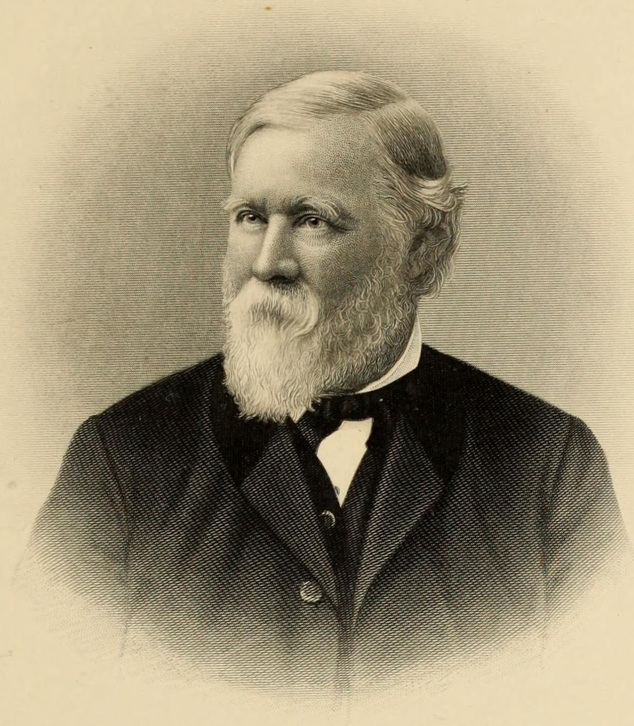 James Maurice, New York Congressman